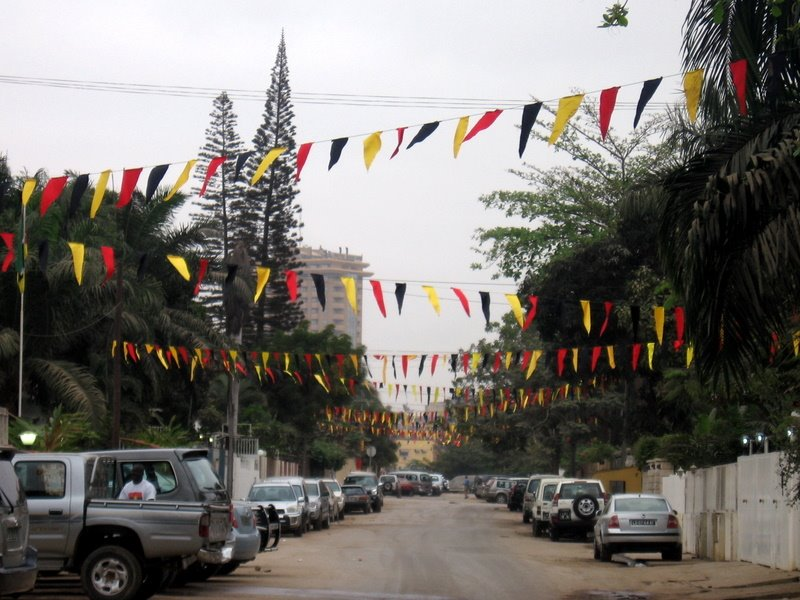 Street in the Alvalade district, Luanda, Angola